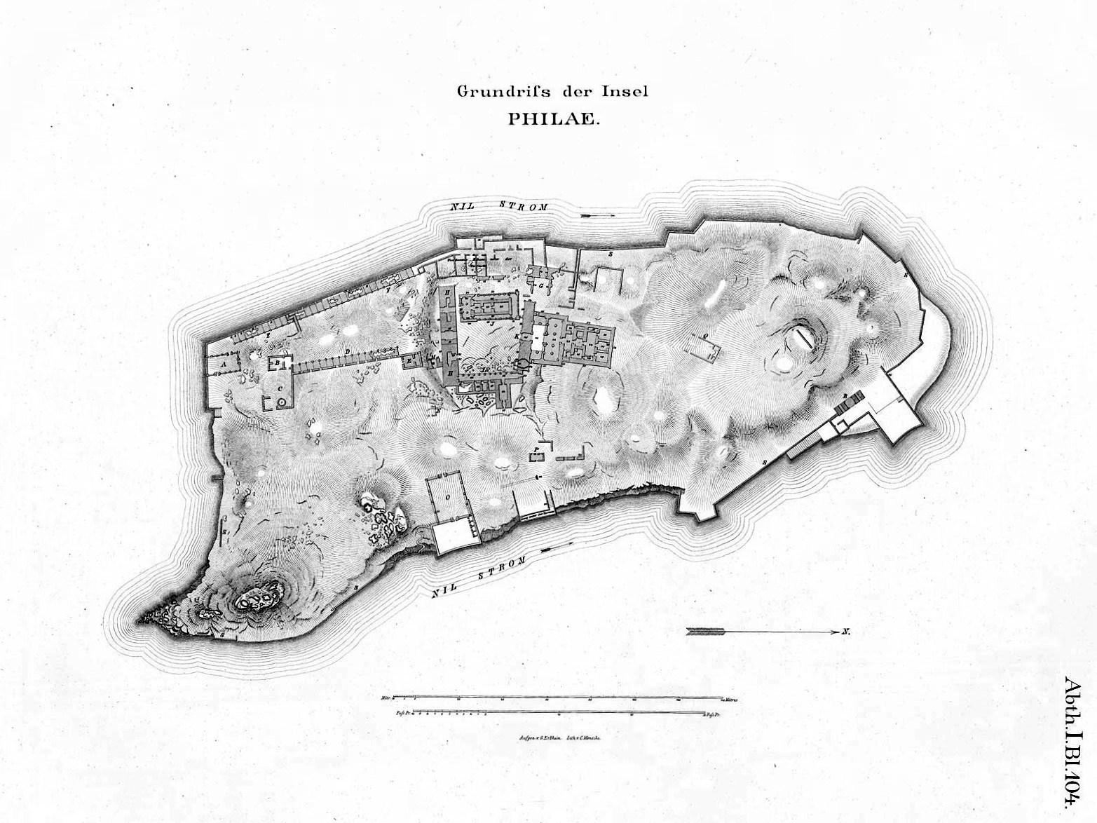 Map of Island of Philae , in Nile in Aswan, Egypt. With floor plan of Temple of Isis and Trajan's Kiosk.